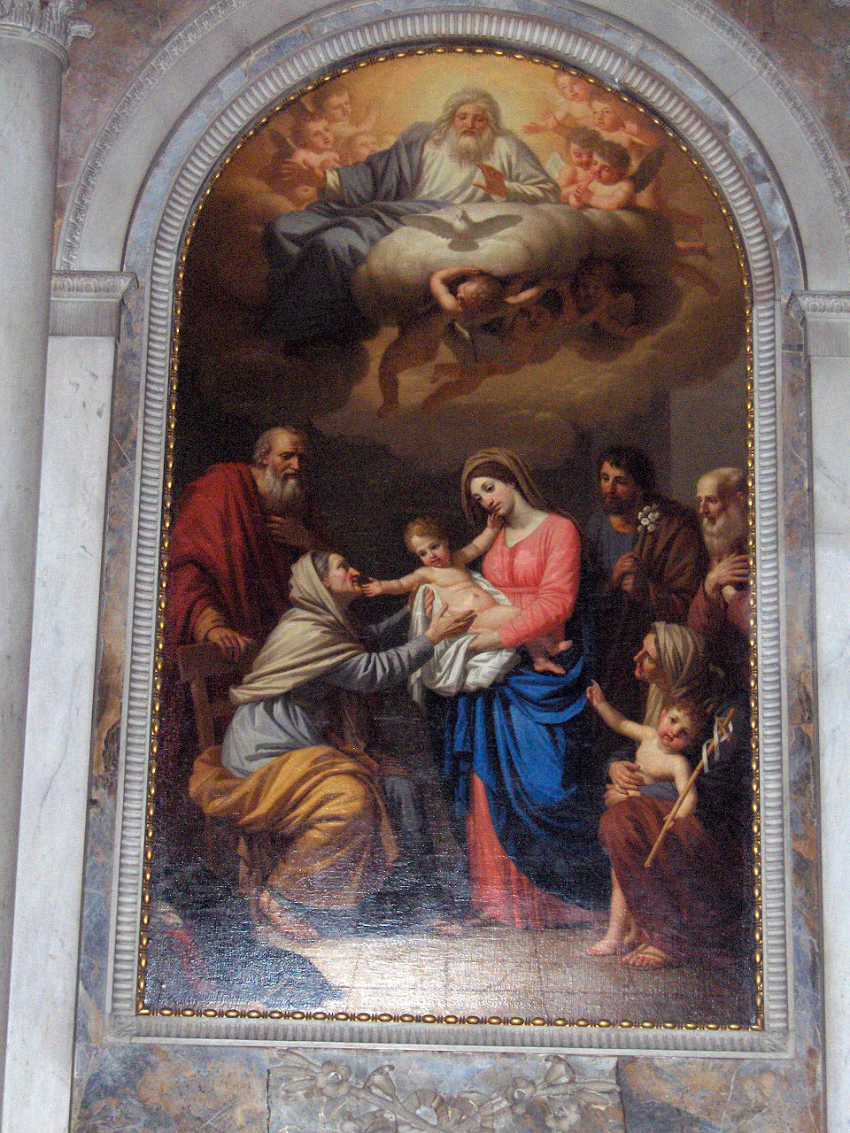 St. Anna adores the Child by Stefano Tofanelli (chapel of St; Anna); basilica of San Frediano, Lucca, Italy Own photo - photo made on 10 October 2005